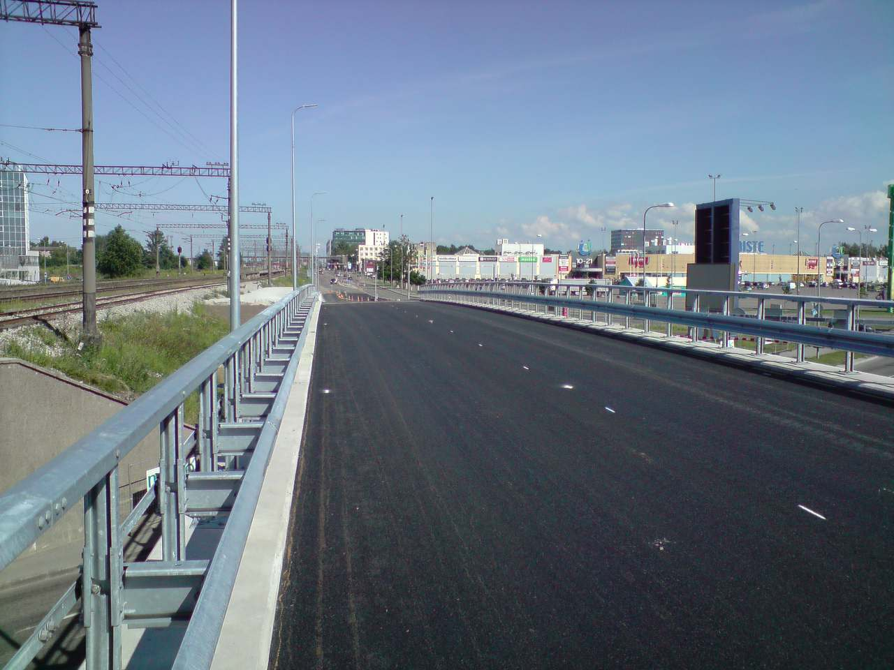 New viaduct in Ülemiste.